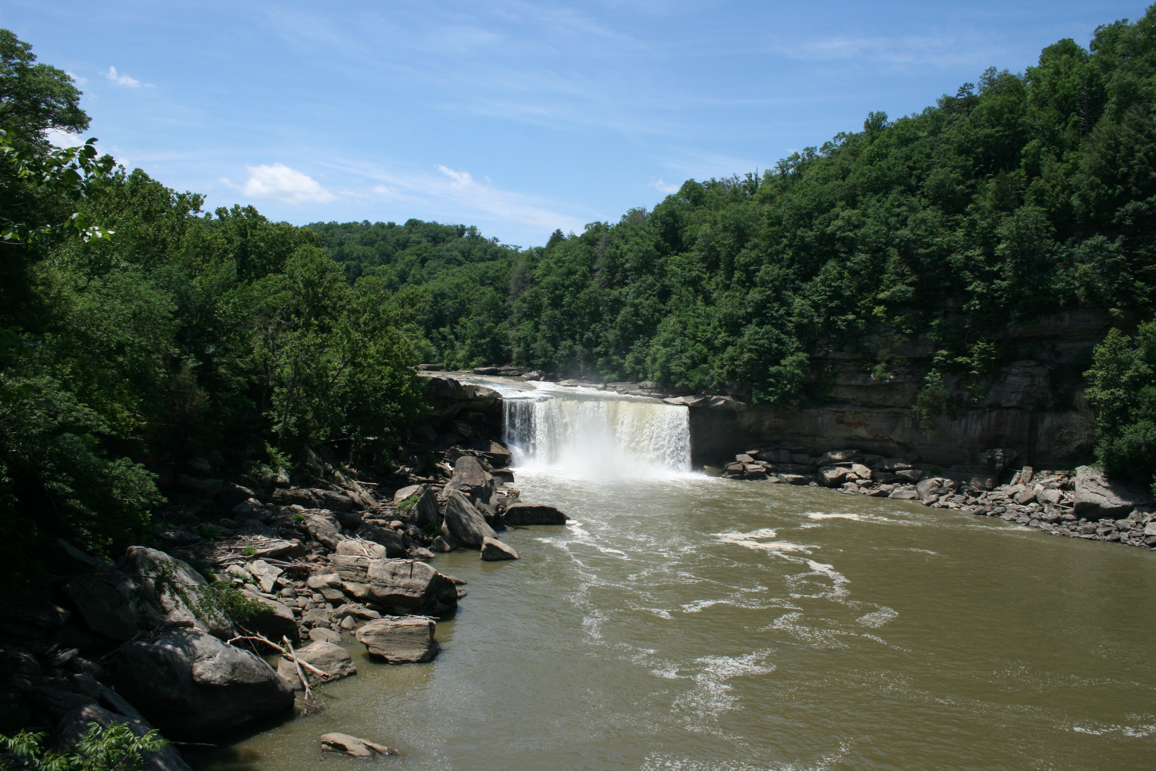 Photograph of Cumberland Falls taken in June. Unedited.